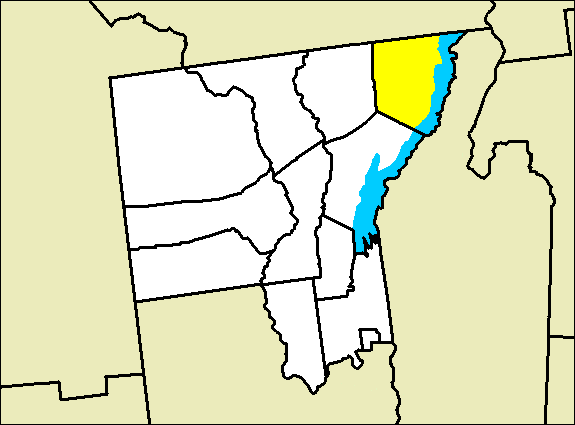 Map of Warren County, New York with town of Hague highlighted.